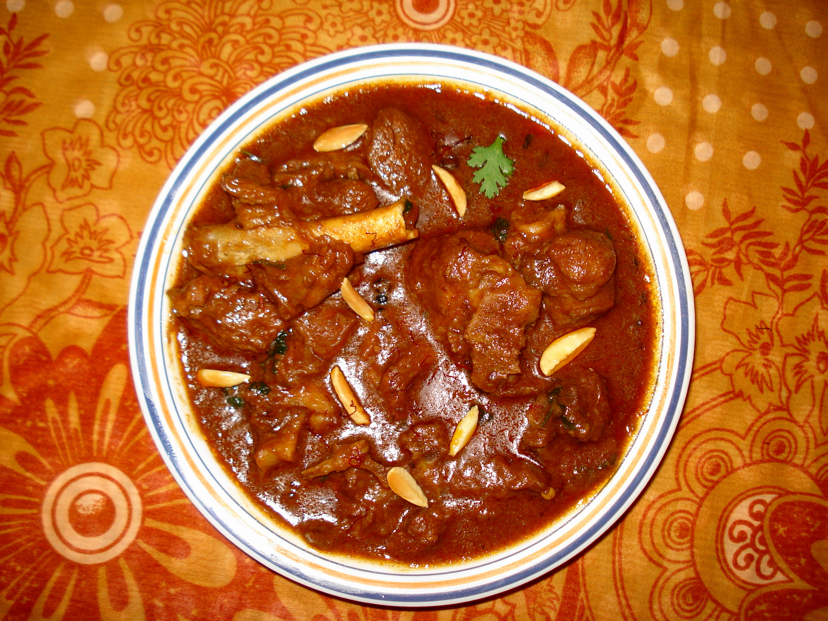 Rogan Josh is a Kashmiri Dish